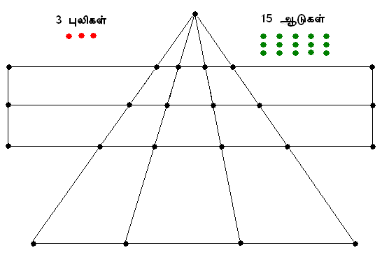 Ancient Indian Board Game of Tigers and Goats